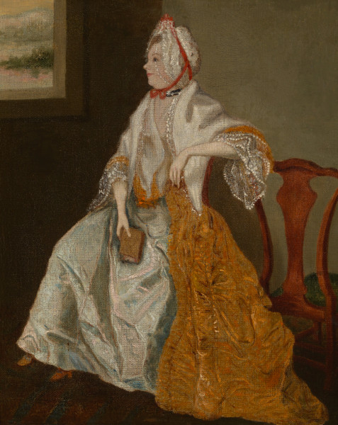 Ann Pitt actress by unknown artist estimate 1770s